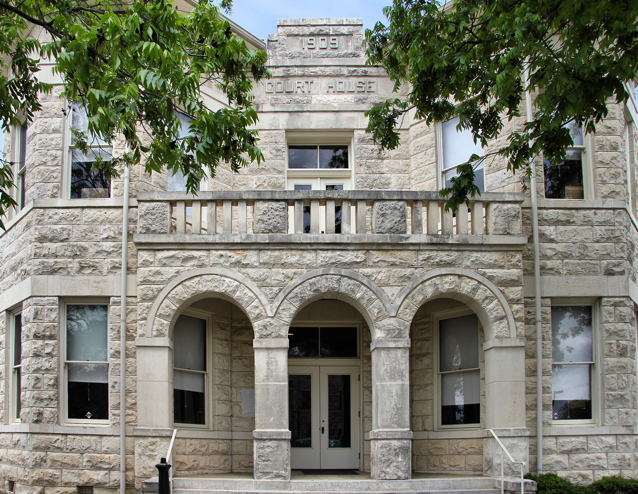 The historic Kendall County Courthouse located in Boerne, Texas, United States. The building was designated a Recorded Texas Historic Landmark in 1970 and listed on the National Register of Historic Places on February 15, 1980.